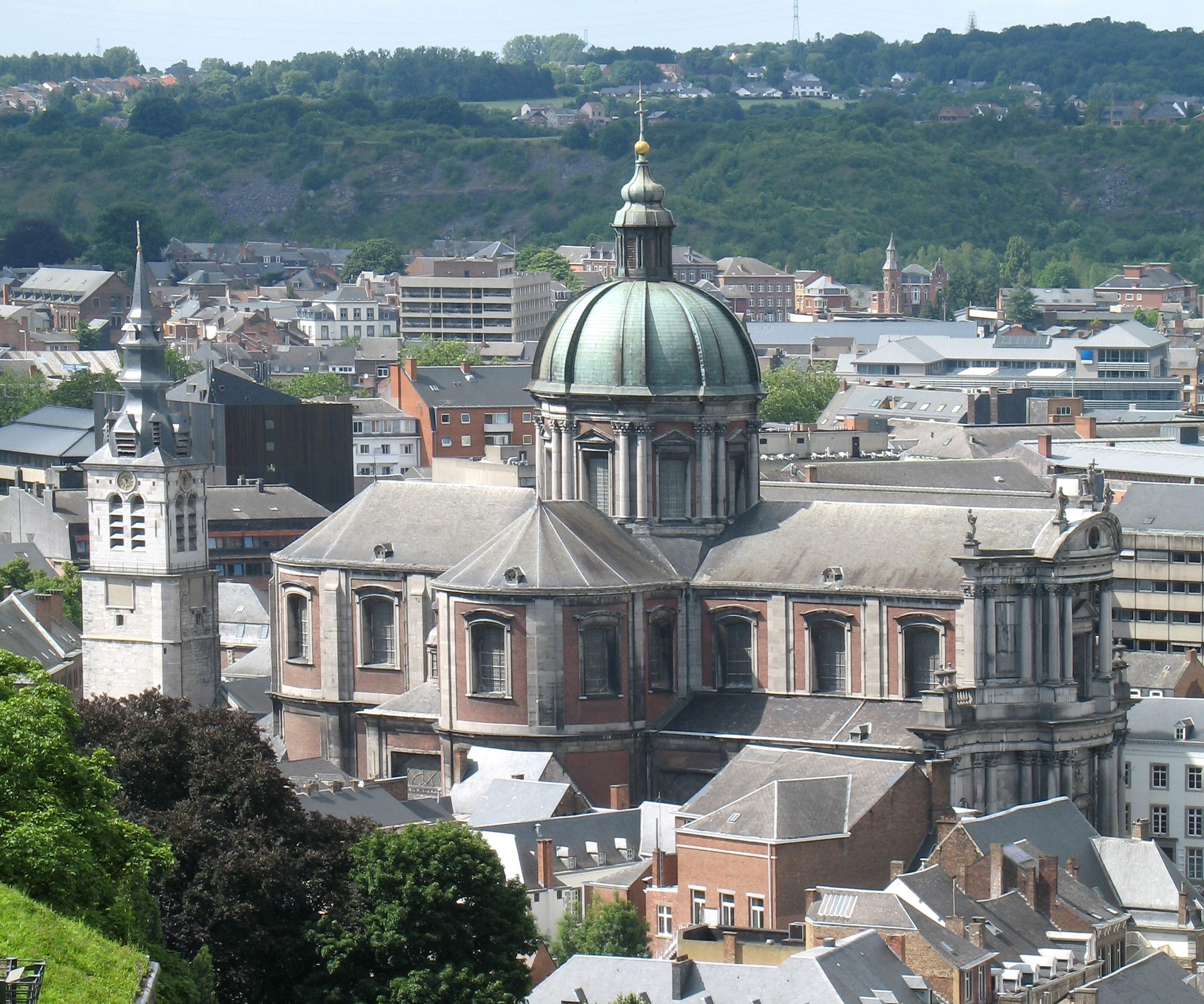 Namur (Belgium): St Aubain cathedral